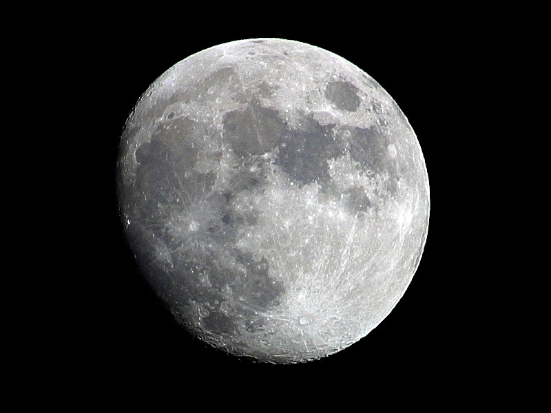 An image of the moon, taken on 22 July 2002 on a Canon D60. Bân-lâm-gú: 佇2002年7月22用Canon D60翕的月娘。